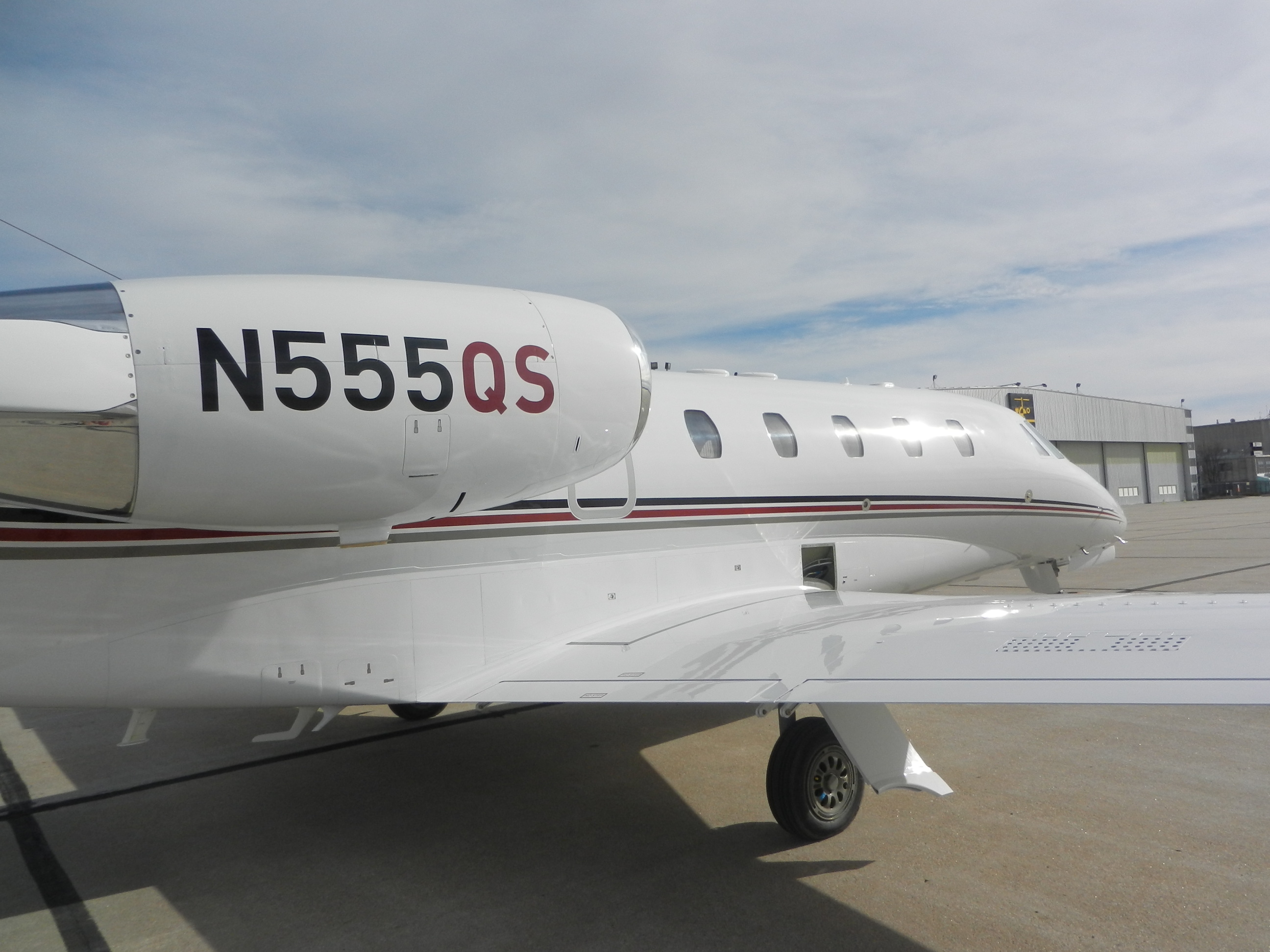 NetJets aircraft all wear this paint scheme, and those based in the US have the letters "QS" painted on the tail number signifying Quarter Share.